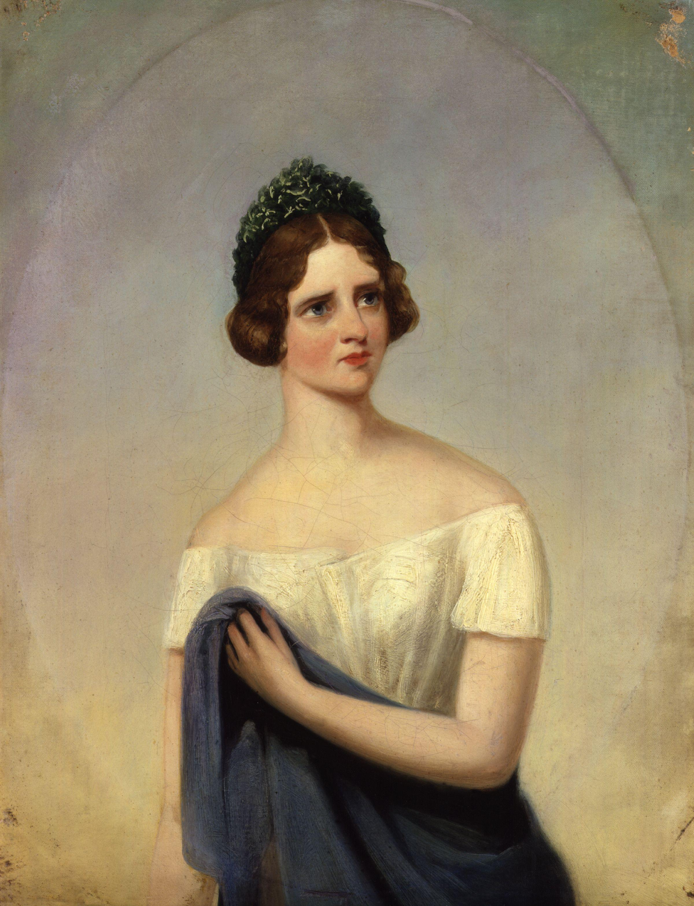 Johanna Maria ('Jenny') Lind, by Alfred, Count D'Orsay (died 1852), given to the National Portrait Gallery, London in 1928. All images in this batch have been confirmed as author died before 1939 according to the official death date listed by the NPG.